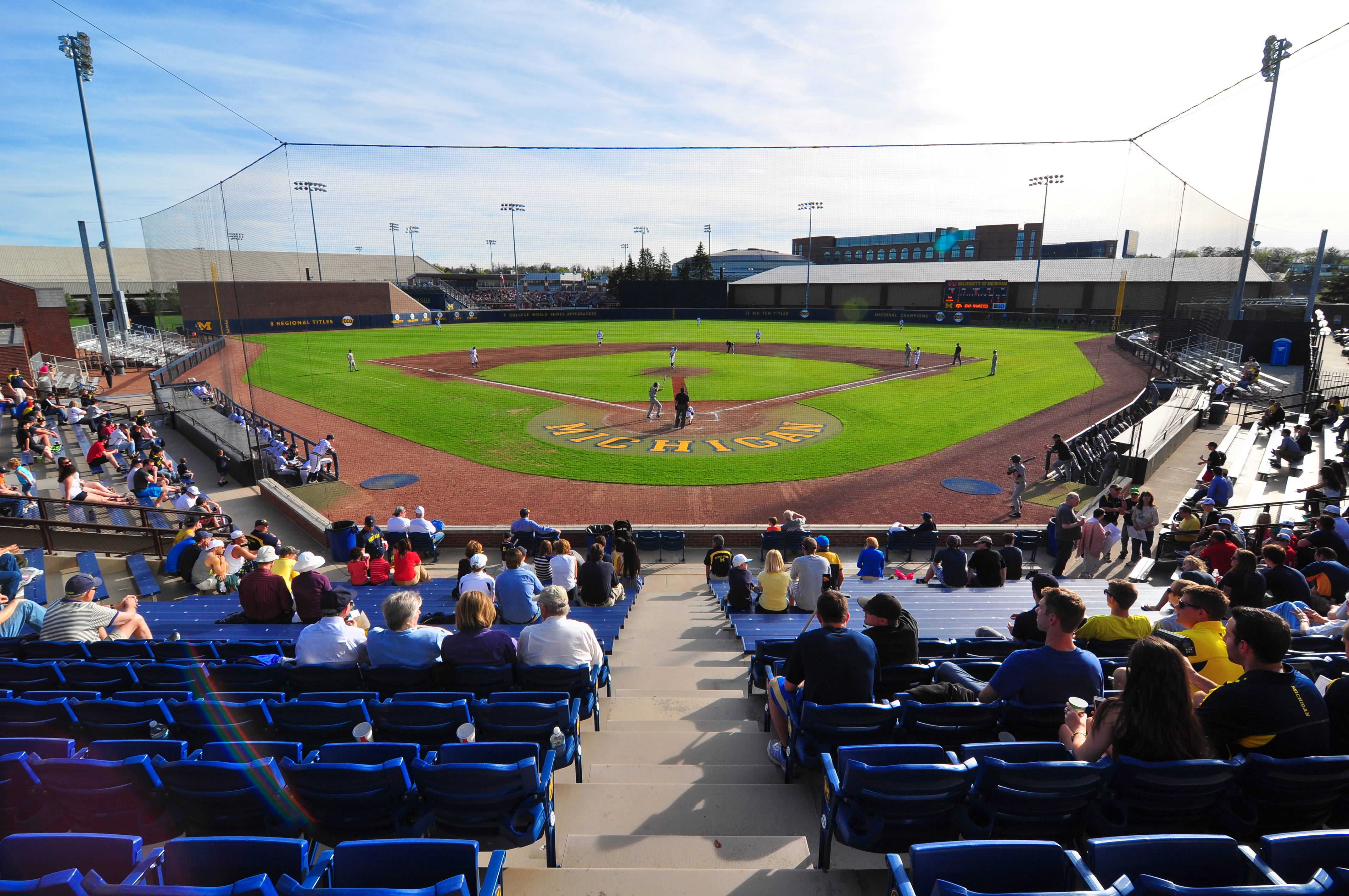 Ray Fisher Stadium. Michigan Wolverines vs Iowa Hawkeyes